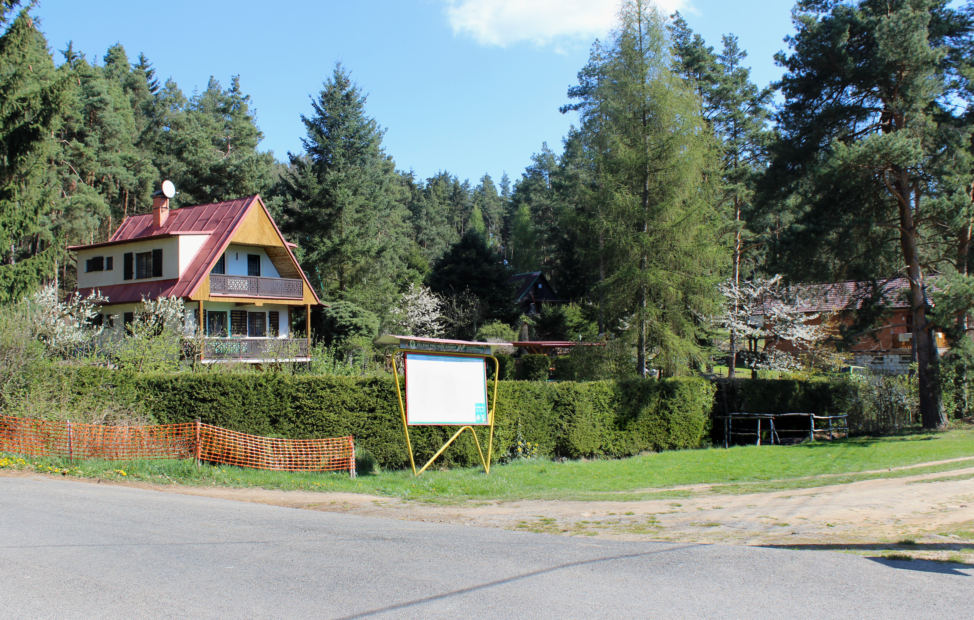 Cottages in Butov, part of Stříbro, Czech Republic